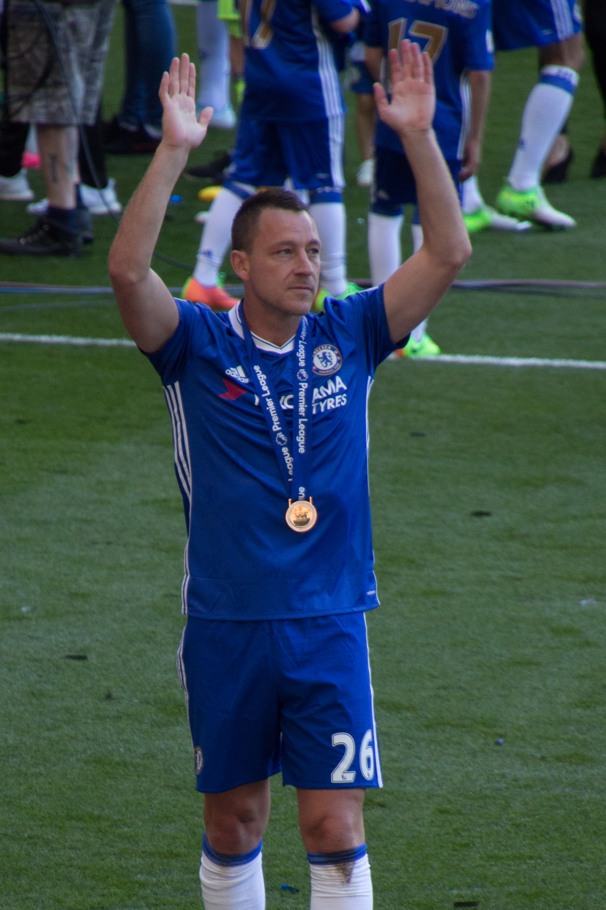 21.5.17 Post Match Celebrations